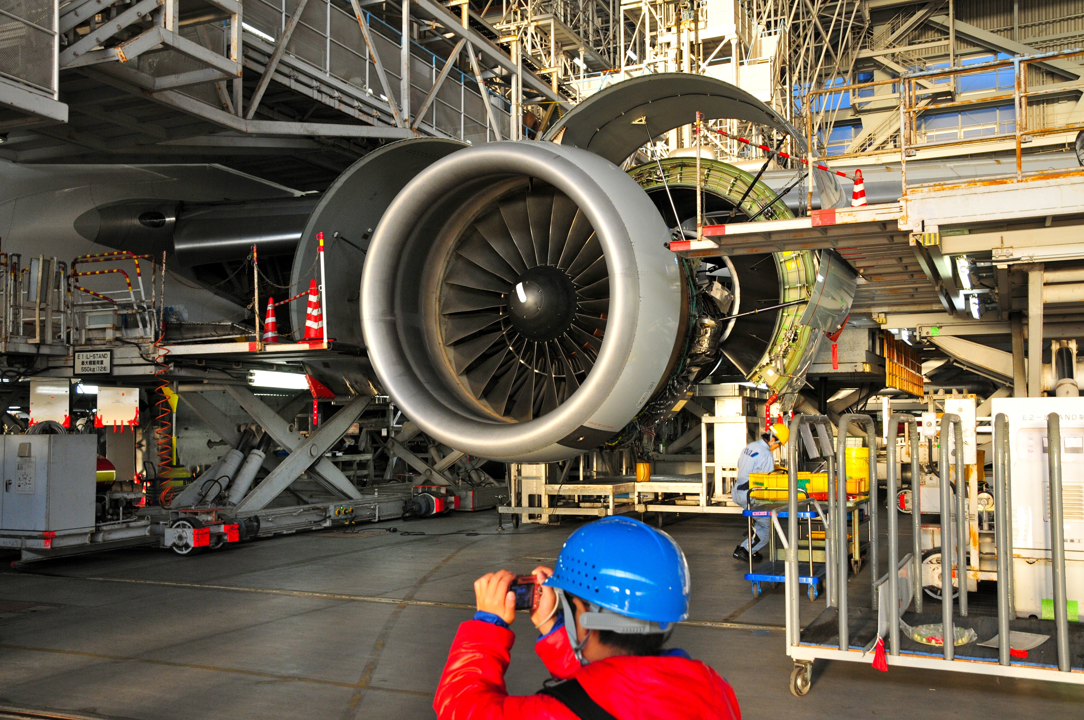 Pratt & Whitney PW4074